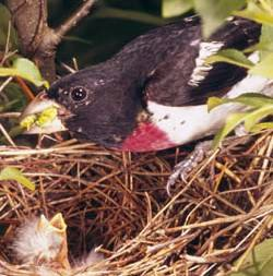 Rose-breasted Grosbeak (Pheucticus ludovicianus) Source: WO-4550-51